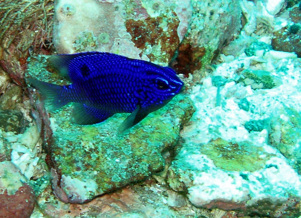 Cortez Damselfish (Stegastes rectifraenum) at Lighthouse site